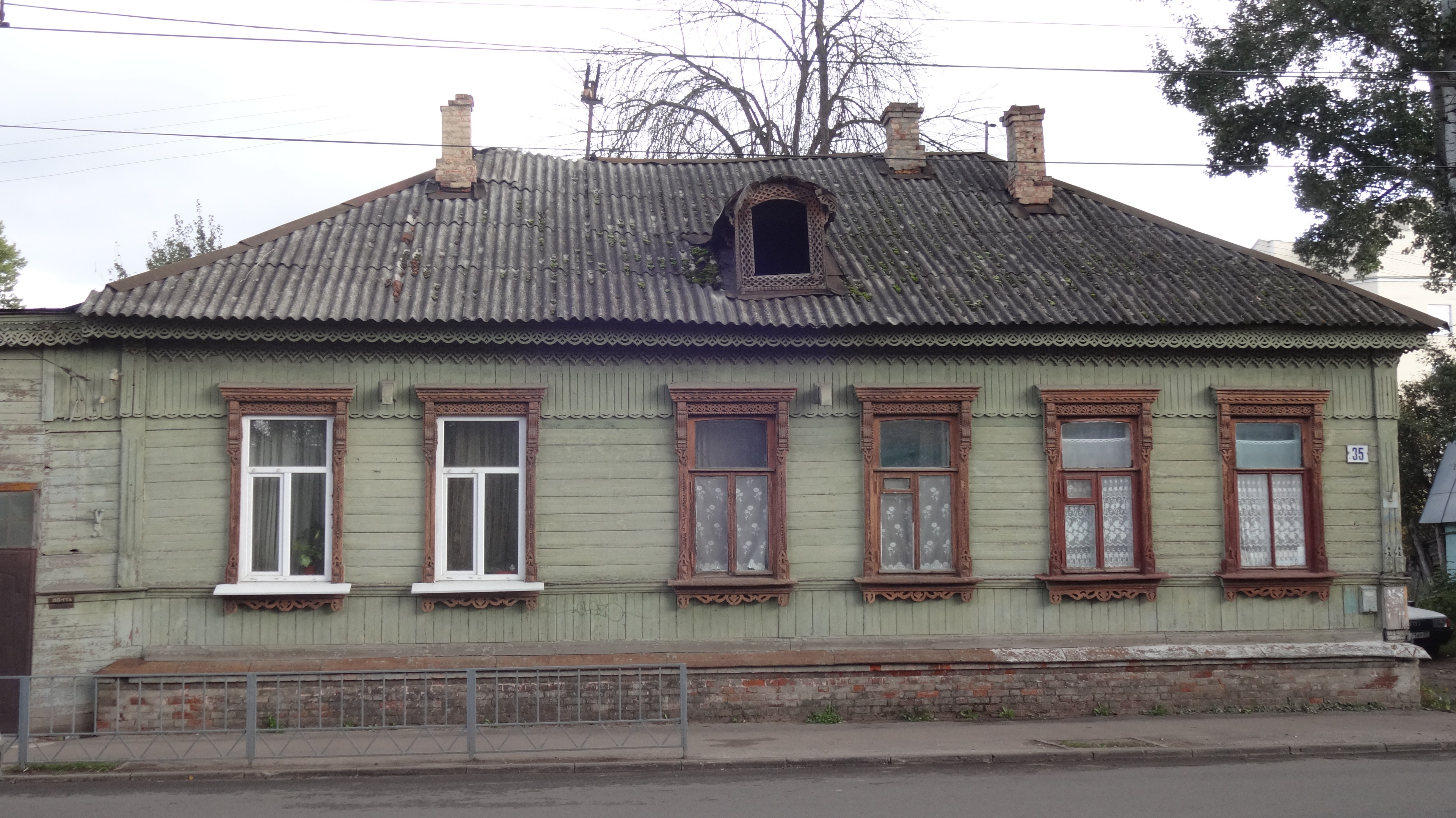 Oryol, Karachev street, 35